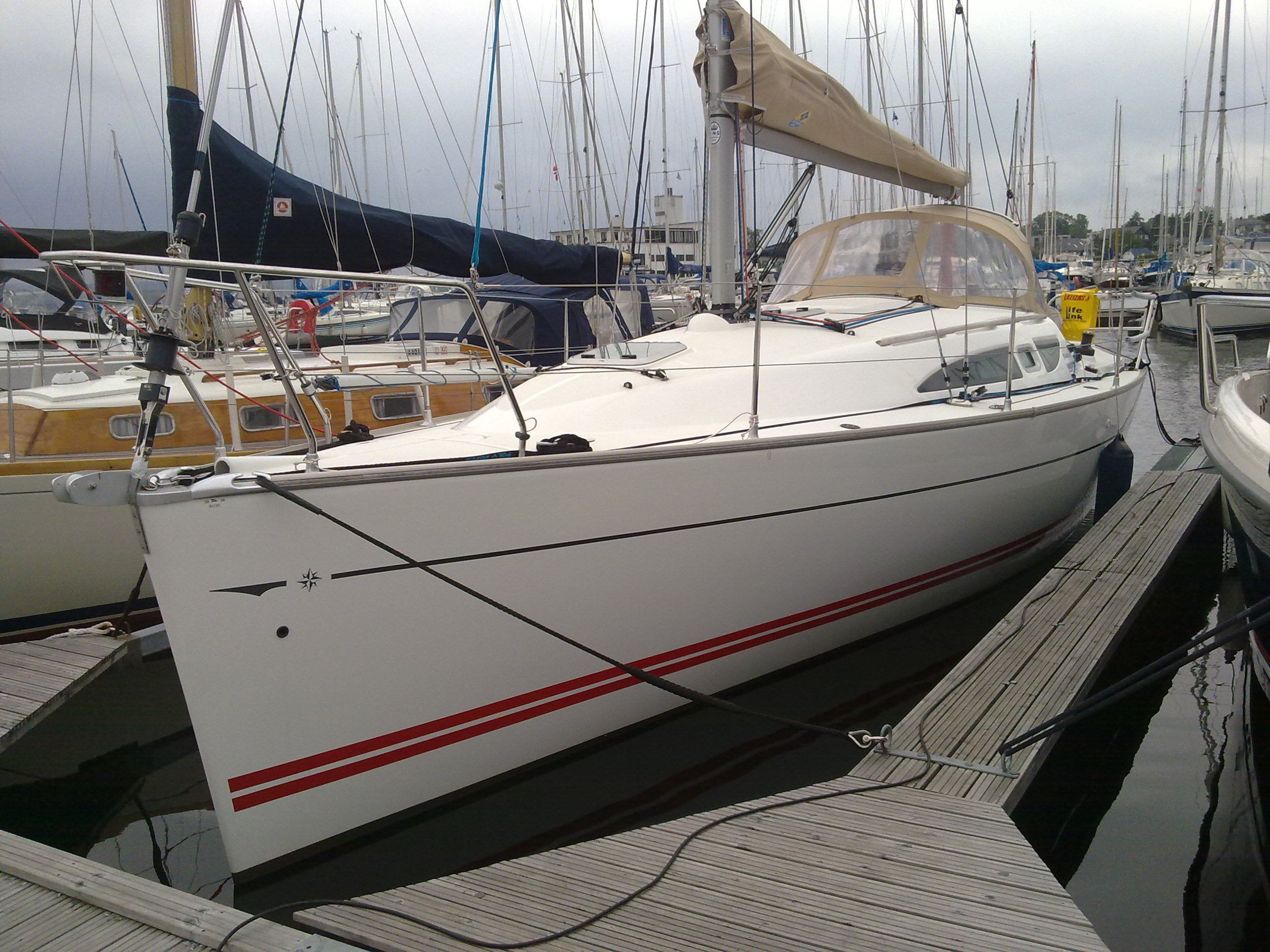 Picture of Sun Fast 32i in Oslo - 2010